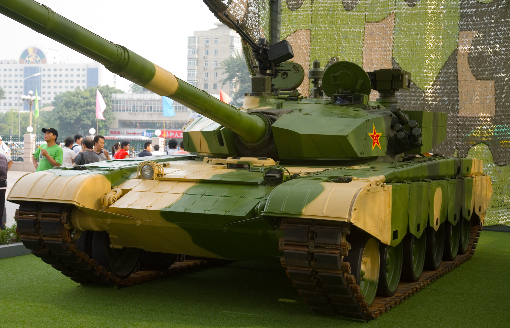 A Chinese Type 99 Main Battle Tank on display at the Beijing Military Museum as part of the "Our troops towards the sky" exhibition.